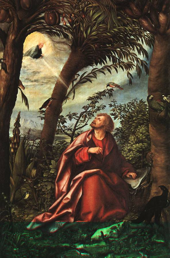 Center panel: John the Evangelist on Patmos